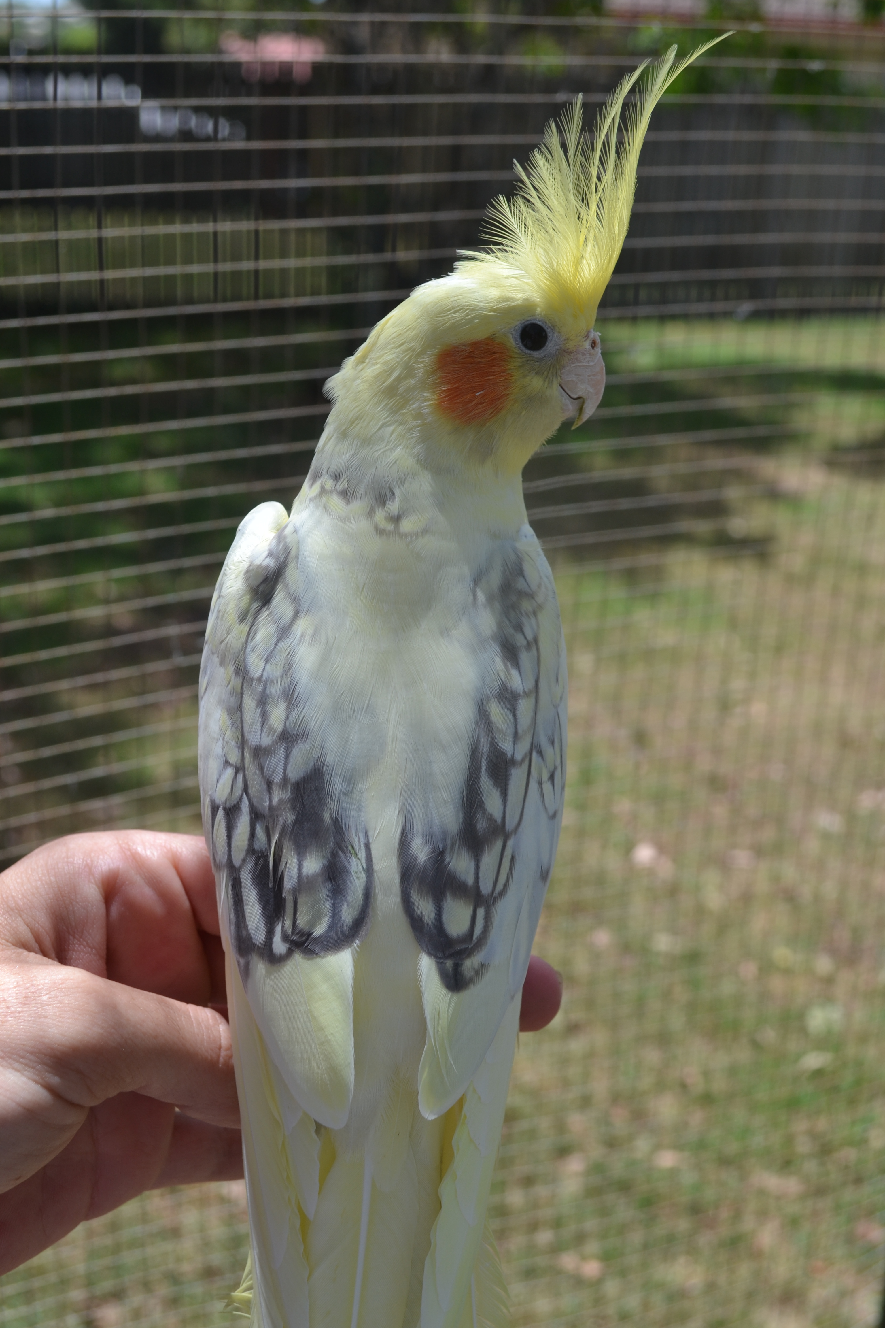 note the pied has effected the pattern on the pearl